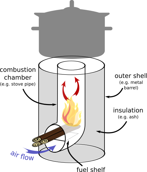 rocket stove simple illustration without labels (png file) created with inkscape